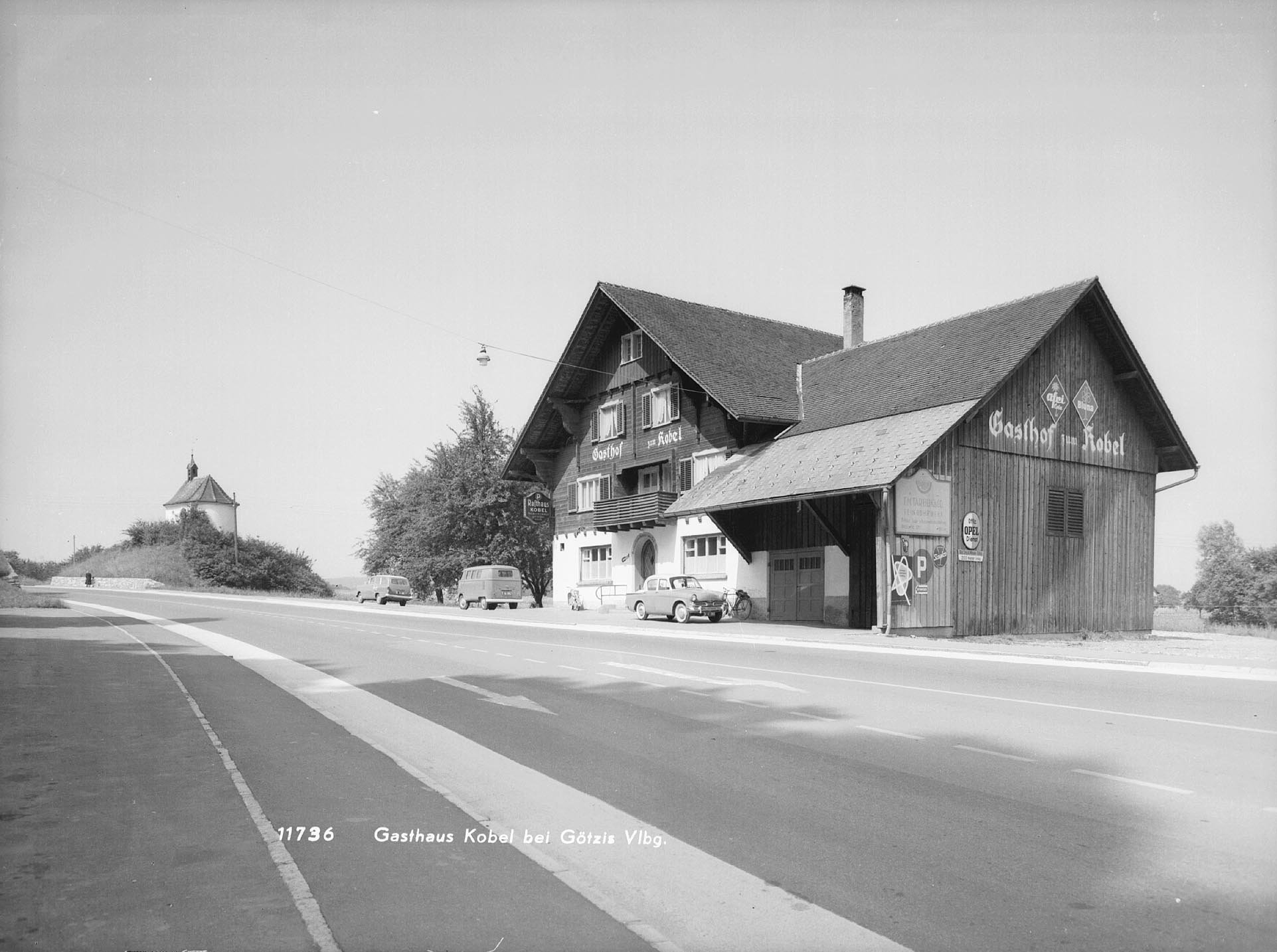 Chapel "Kobel" and Inn "Kobel" in Goetzis, Vorarlberg, Austria.